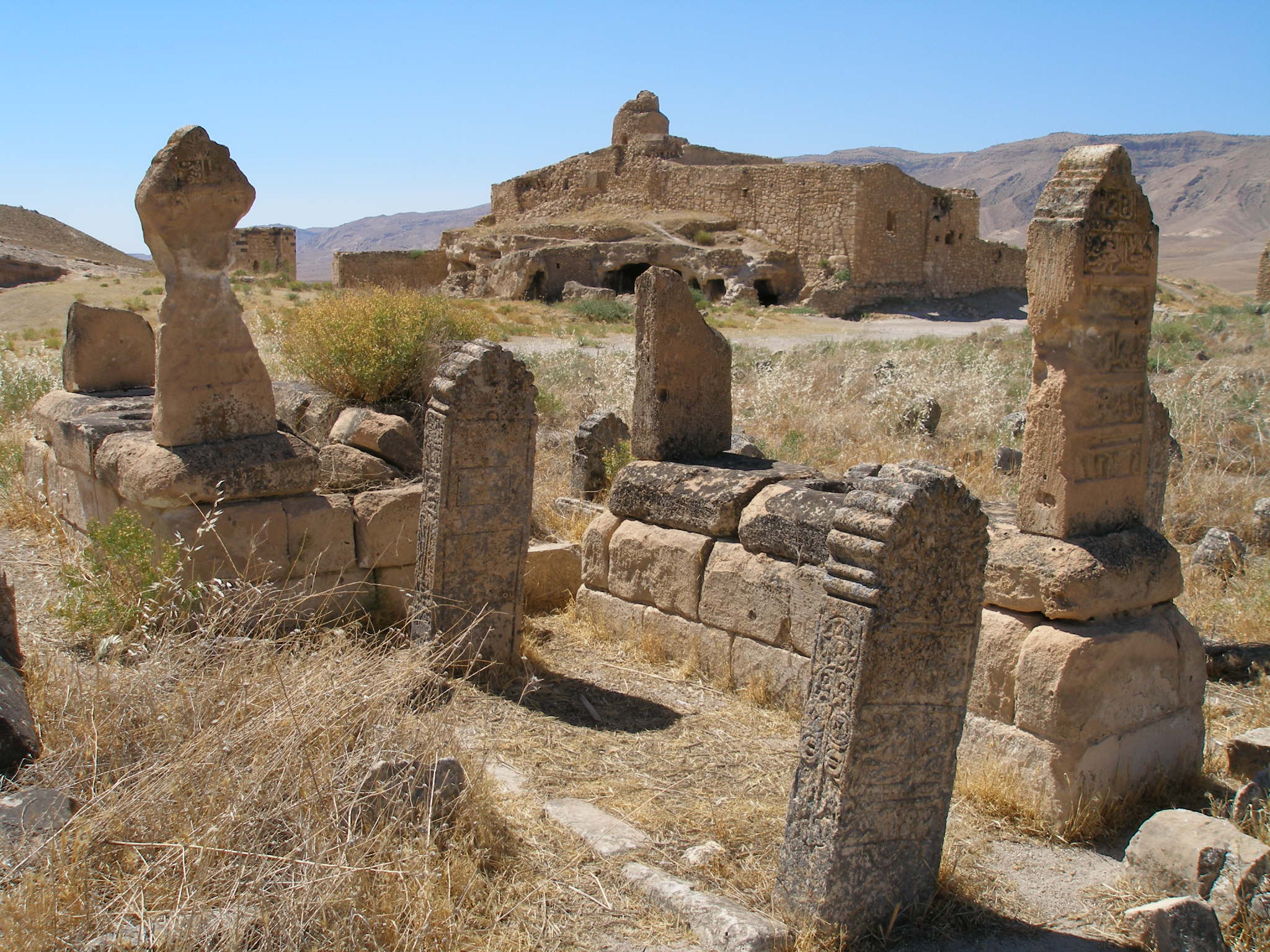 The upper town, also called the castle